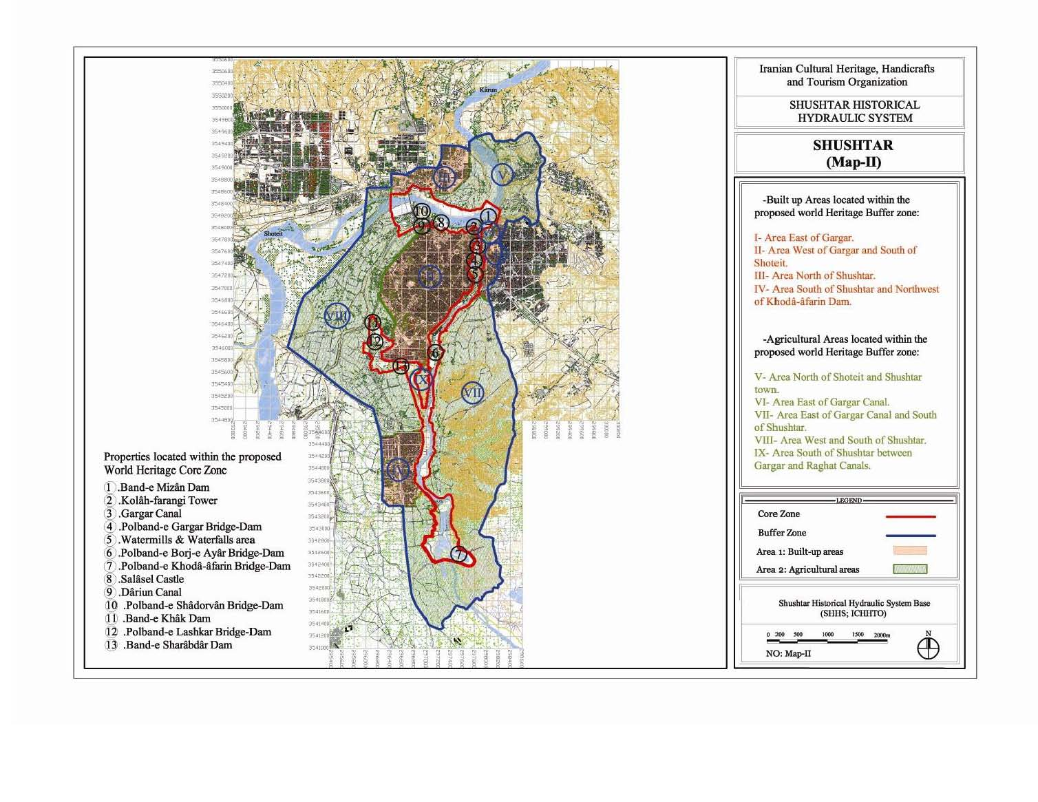 UNESCO MAP of Shushtar